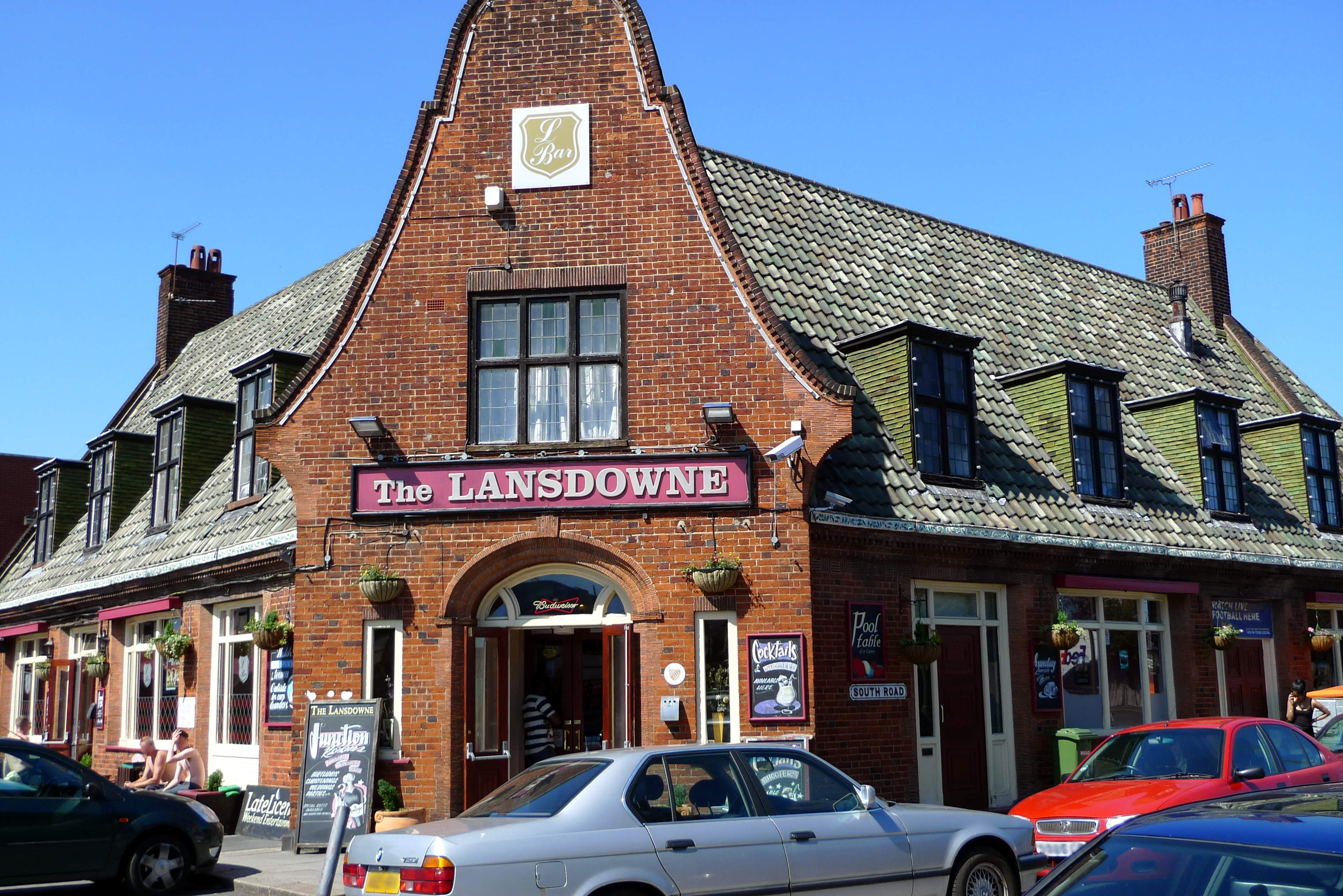 A large sports pub with some seating outside. They charge a £5 minimum spend to watch the football, which is probably why quite a few people were lingering outside. It's also called "L Bar" according to the plaque above the name. Address: 200 Burnt Oak Broadway. Former Name(s): The Broadway. Owner: Taylor Walker (former). Links: Randomness Guide to London Beer in the Evening